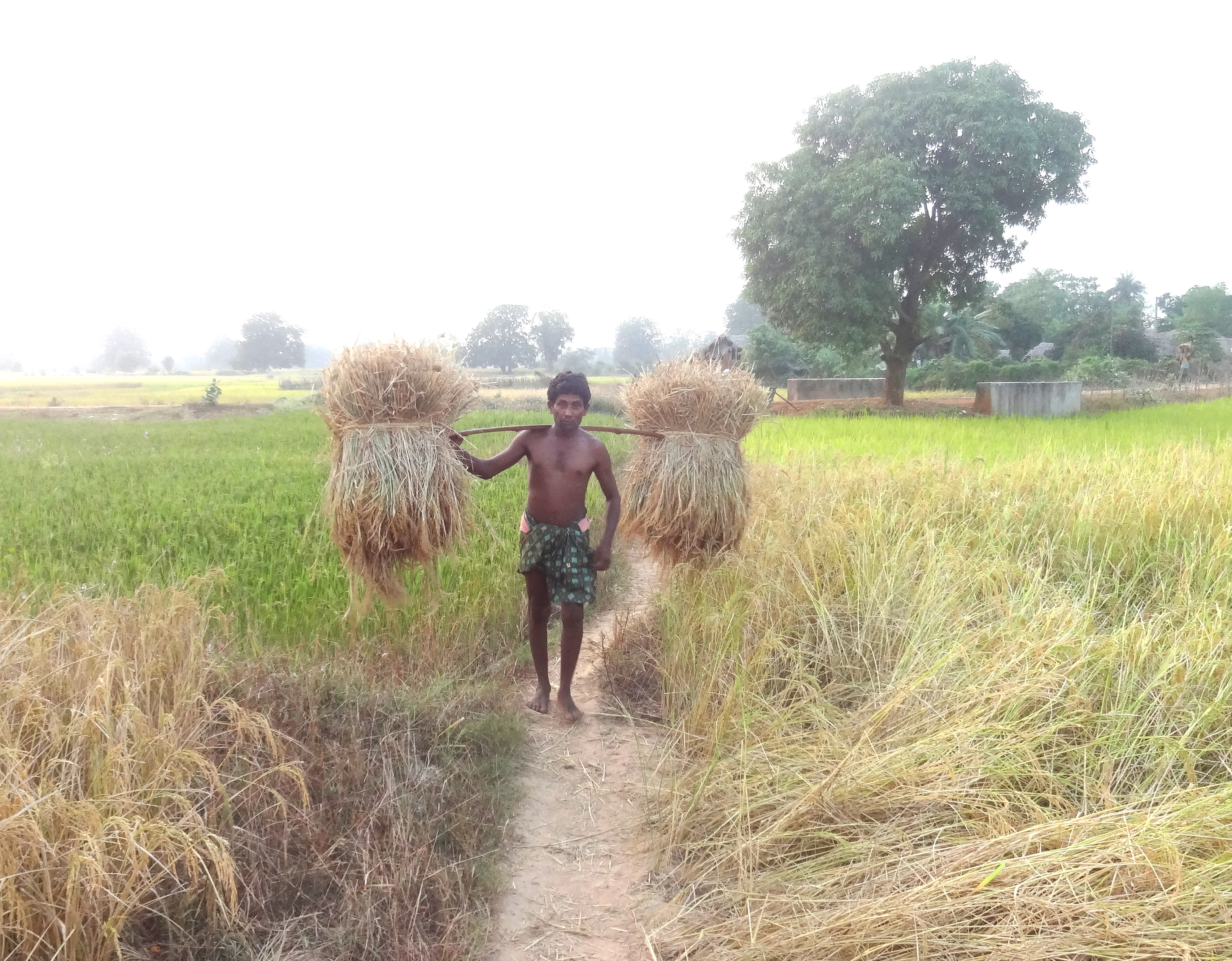 Rice farmer at work in the Odisha